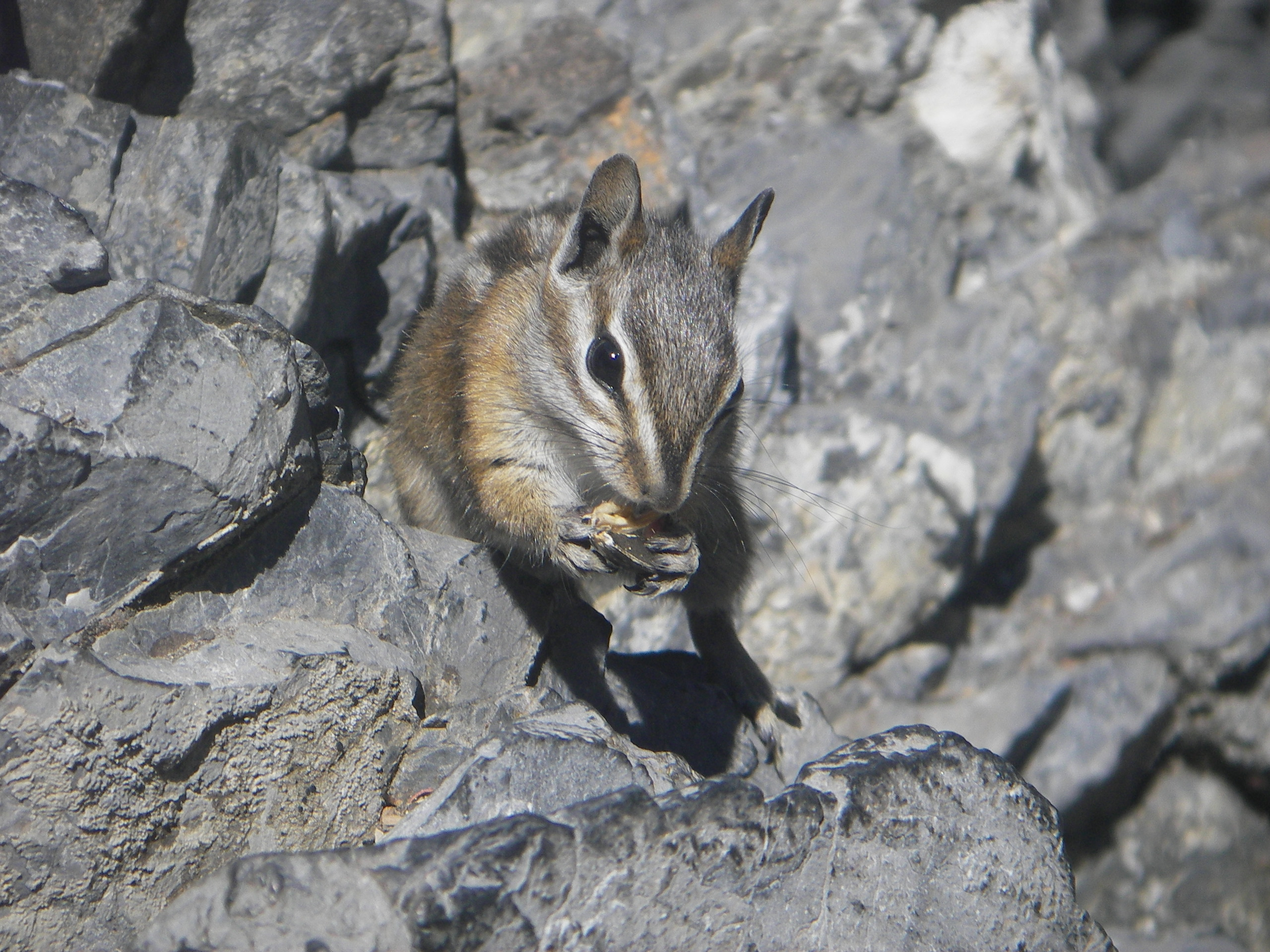 A Colorado chipmunk eating a sunflower seed near the entrance to Timanogos Cave in Timpanogos Cave National Monument, Utah.